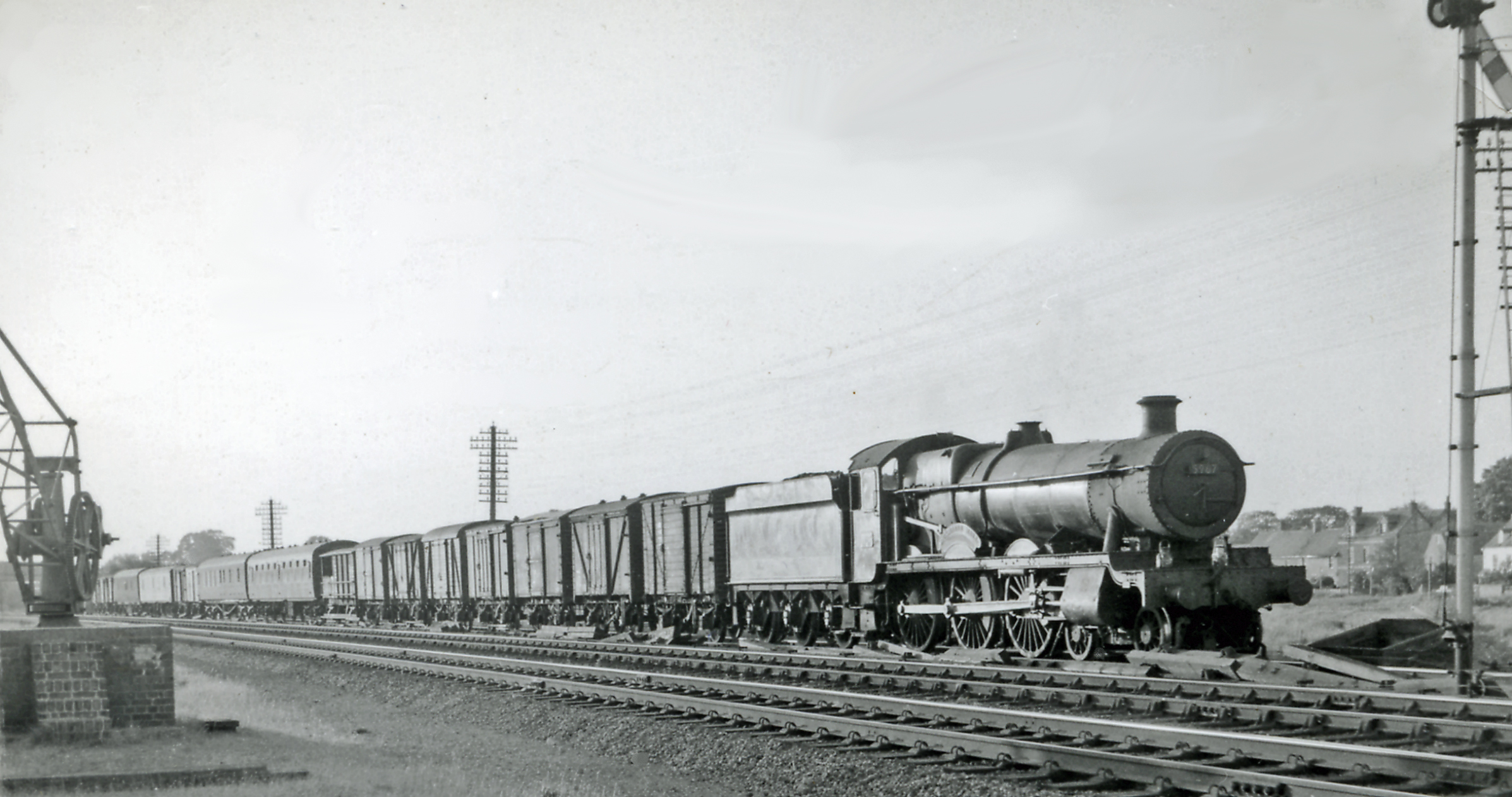 Up Parcels train just south of Wolvercote Junction. Evening scene, towards Worcester/Banbury/Birmingham on ex-GW main lines northward from Oxford. The locomotive is Collett 4-6-0 No. 5967 'Bickmarsh Hall' (built 3/37, withdrawn 6/64, but preserved - currently on the Northampton & Lamport Railway).